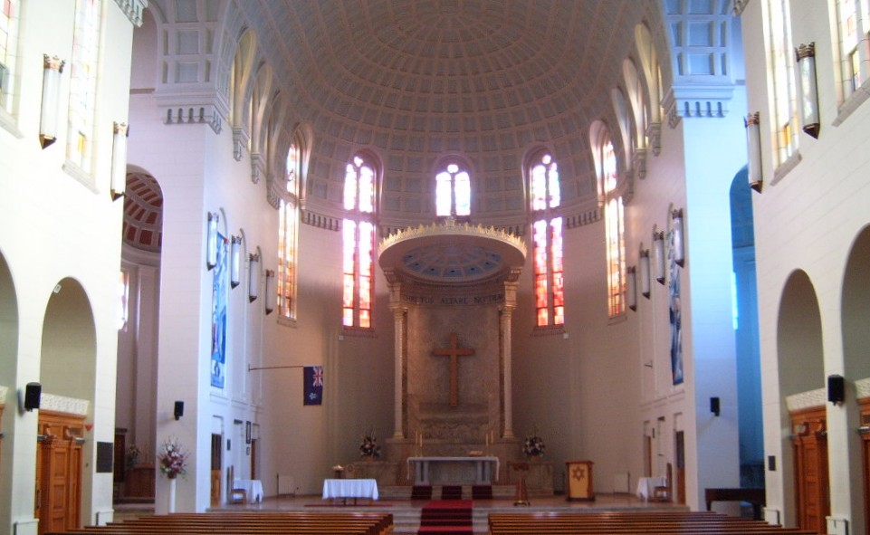 Chapel of the Victoria Police College, in Glen Waverley in the eastern suburbs of Melbourne, Victoria, Australia. Until 1972, the Chapel of the Corpus Christi College.